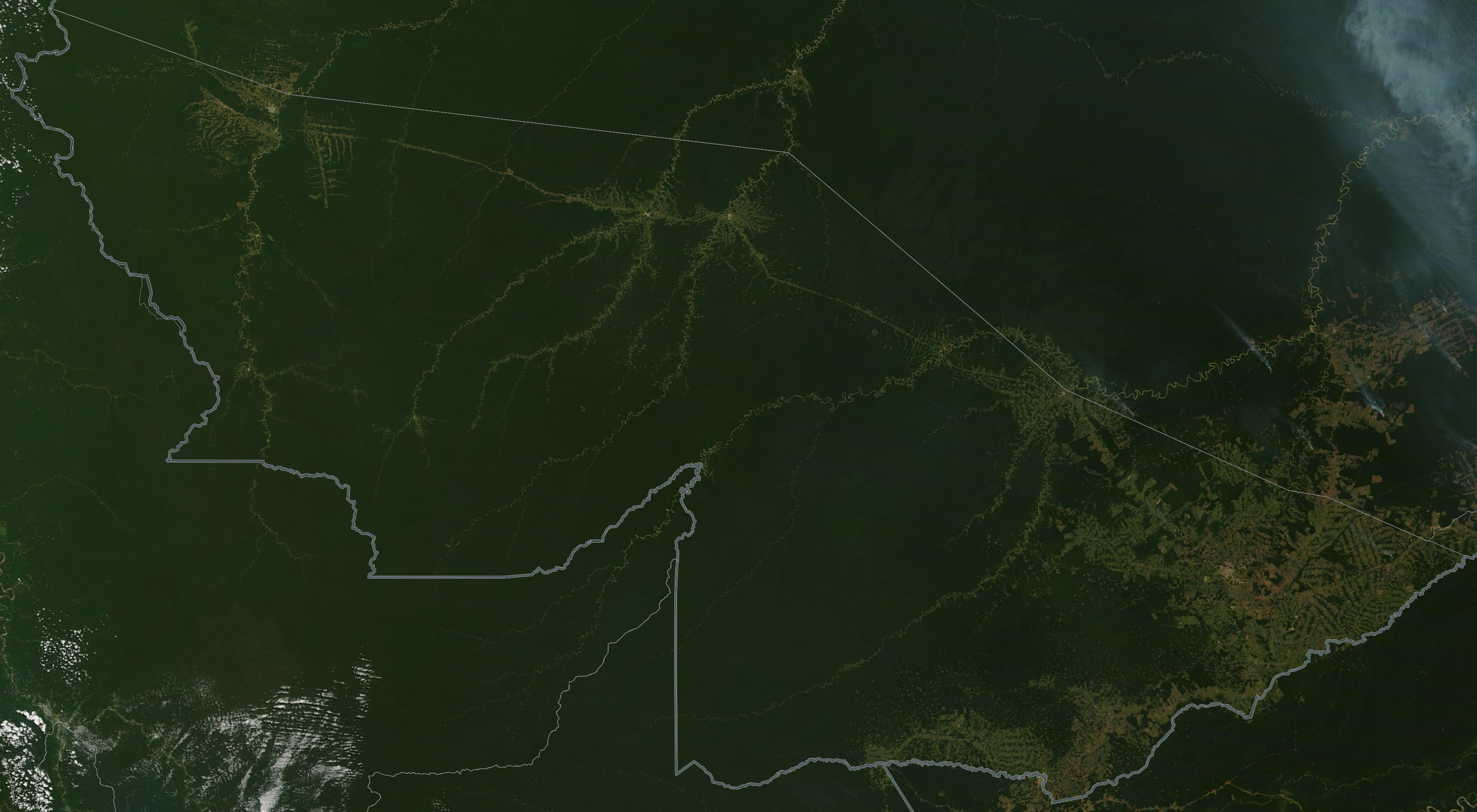 A satellite image of the territory of Acre state, Brazil.